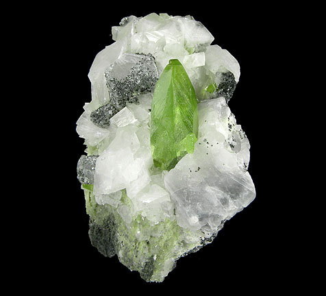 Titanite, Adularia, Clinochlore Locality: Tormiq valley (Tormic; Tormik; Tormig; Turmiq), Haramosh Mts., Skardu District, Baltistan, Northern Areas, Pakistan (Locality at ) Size: 4.7 x 4.7 x 3.0 cm. Tormiq is one of the classic Titanite localities in Pakistan, and this area has produced some superb crystals of the species, especially some outstanding twins. These are "Alpine-type" Titanite crystals. This specimen features a very pronounced, sharp, lustrous, bright green, twinned crystal of Titanite with Adularia and minor Clinochlore on matrix. This specimen is a very attractive miniature and these pieces are some of the most difficult to obtain from Pakistan.